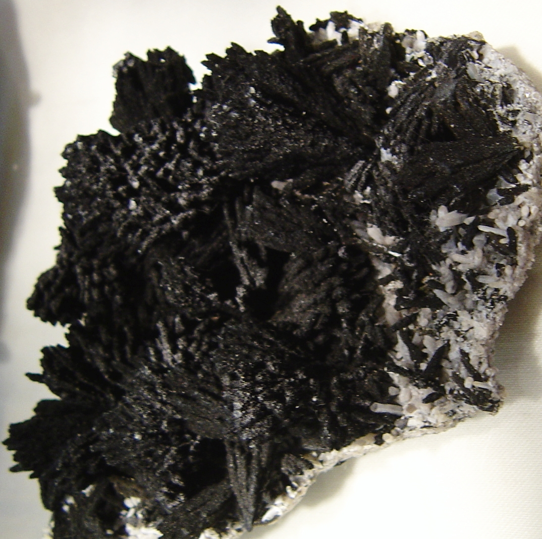 black tourmaline